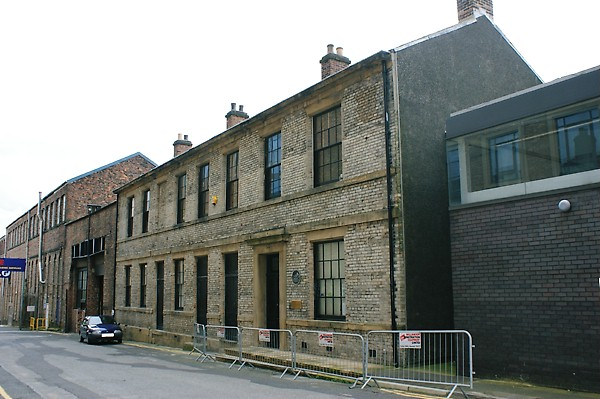 The offices of Robert Stephenson's original locomotive works at Newcastle, 09/08.